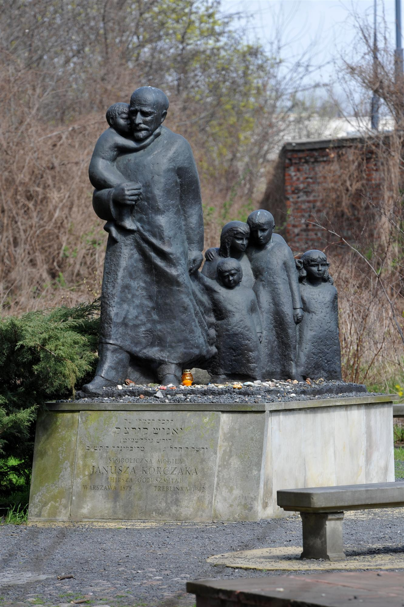 Monument to Janusz Korczak, Jewish Cemetery, Warsaw